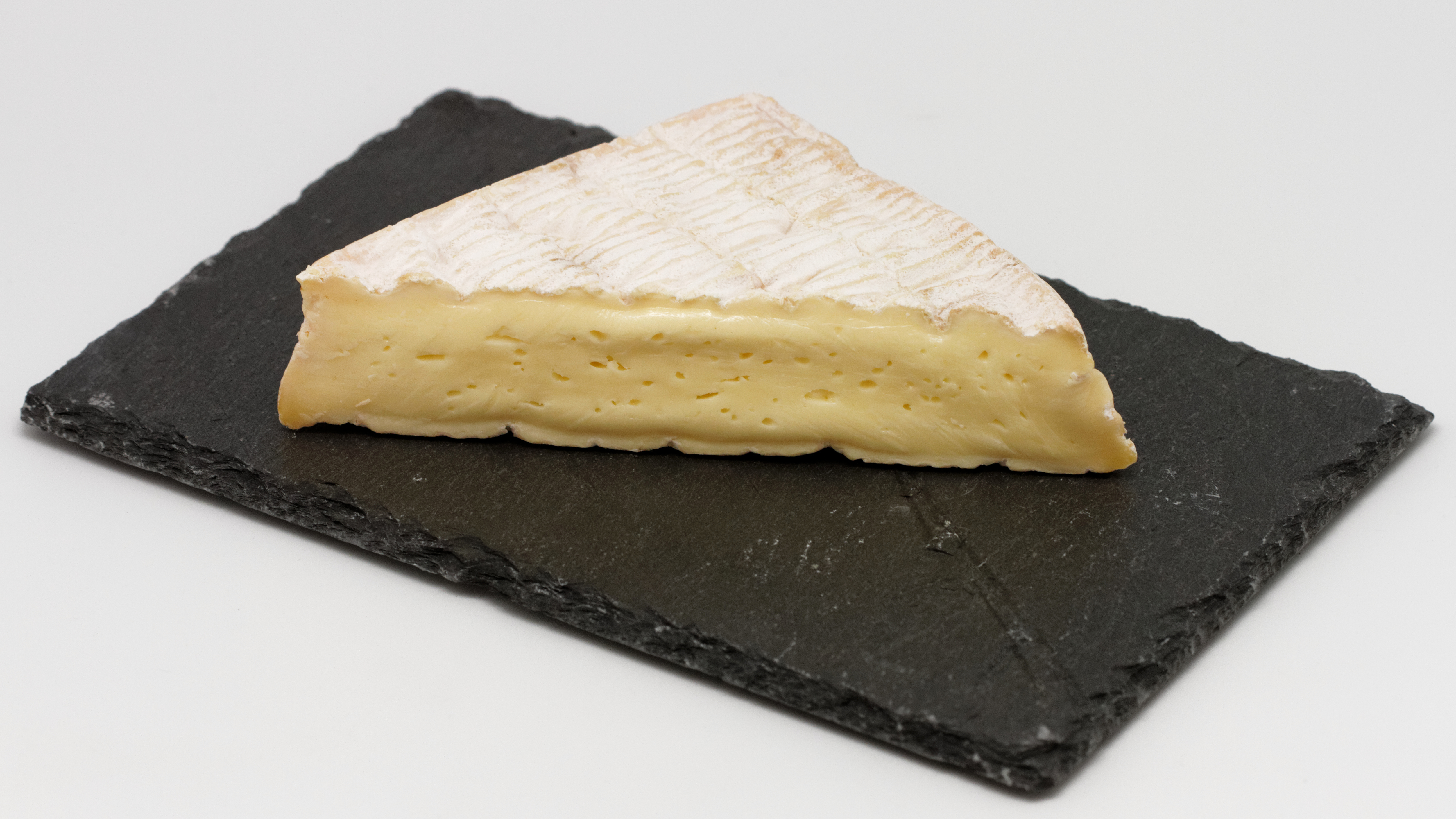 Pont-l'Évêque (cow's milk cheese)